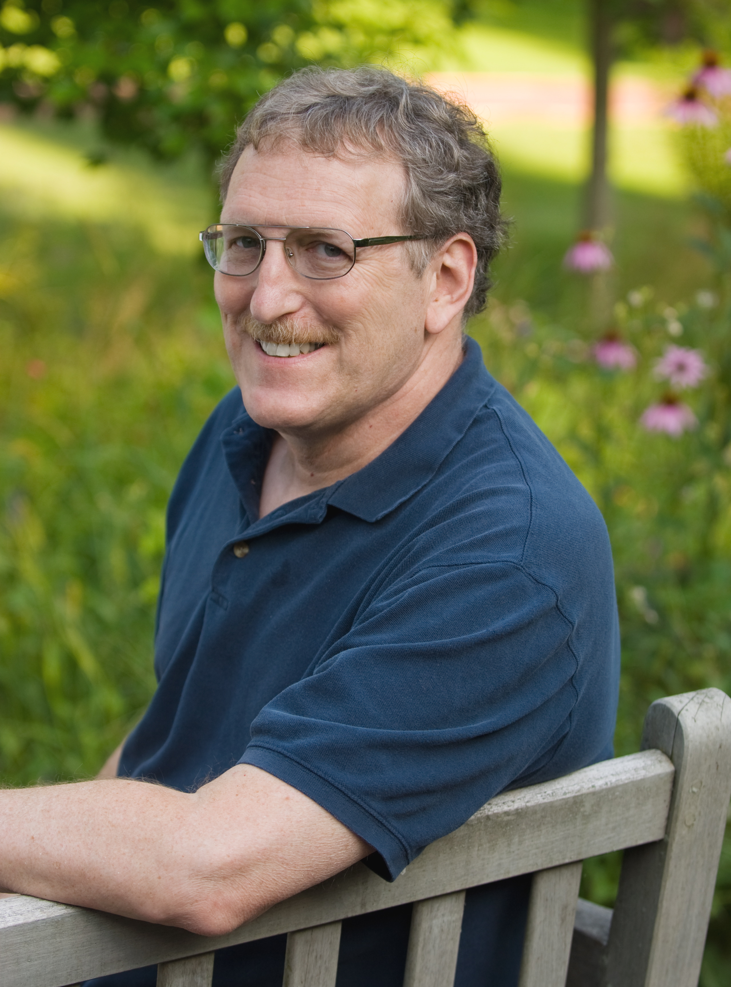 photograph of Maurice Isserman